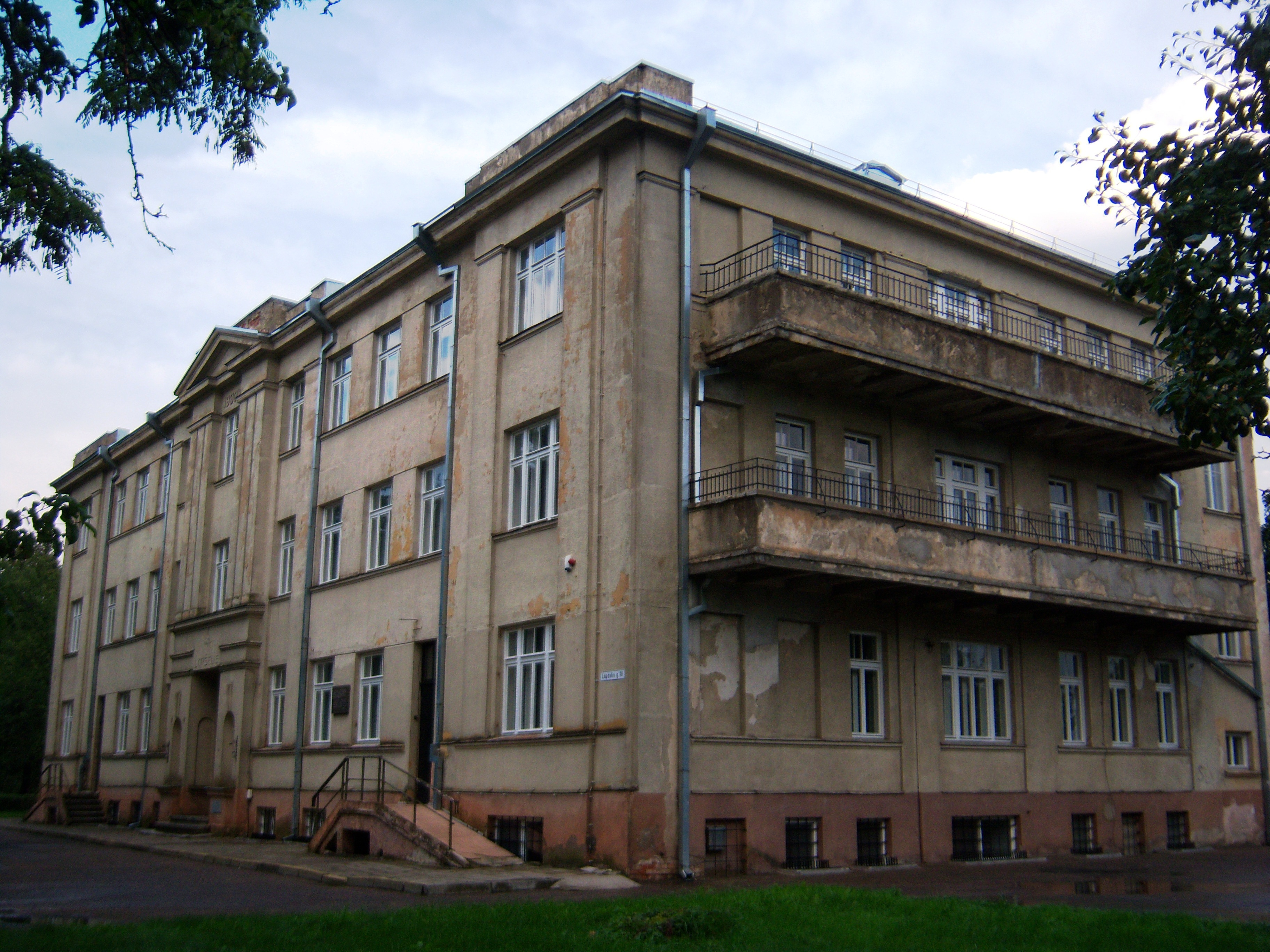 Children's Rehabilitation Hospital „Lopšelis“, Lopšelio street 10, Kaunas, Lithuania